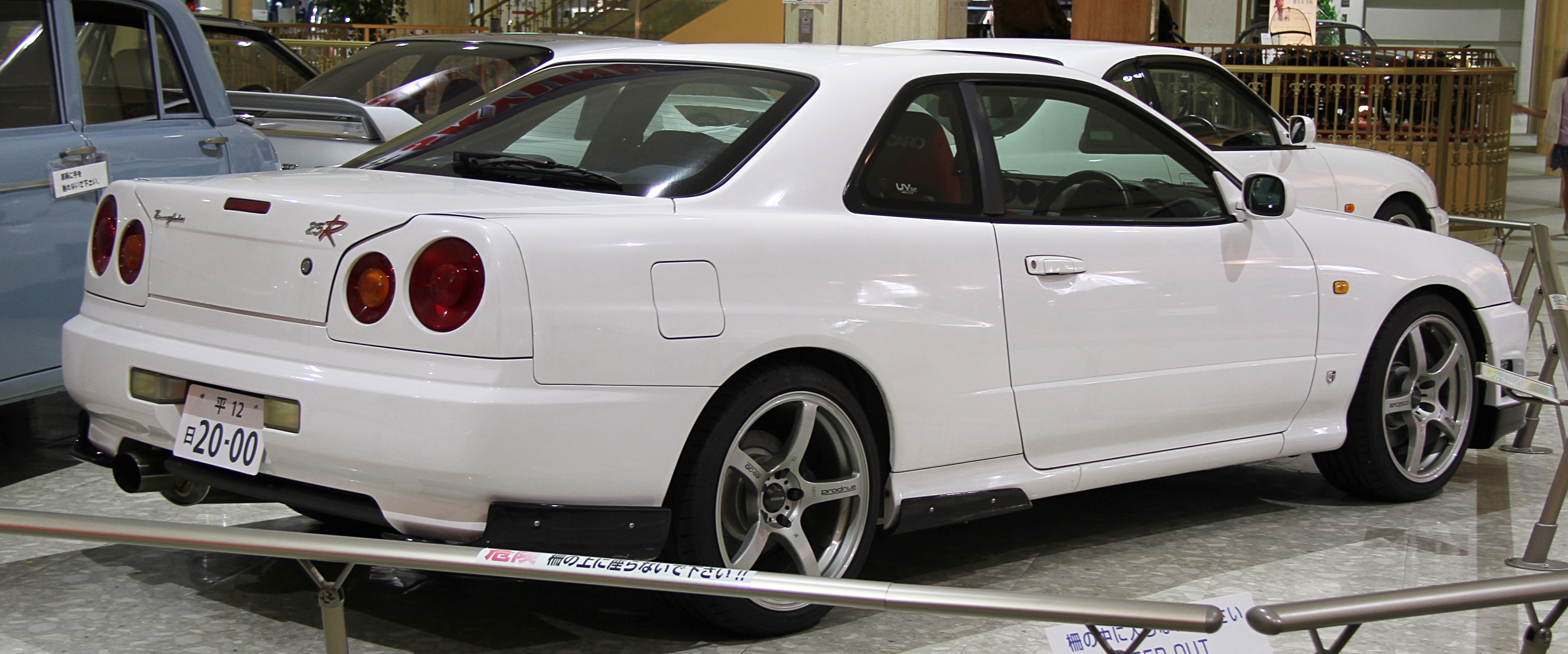 Tommykaira 25R